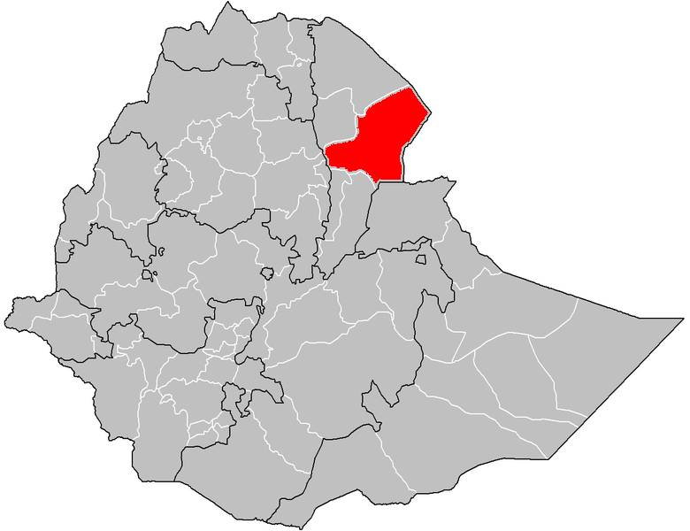 Ethiopia zones map with Afar Zone 1 enlighted.